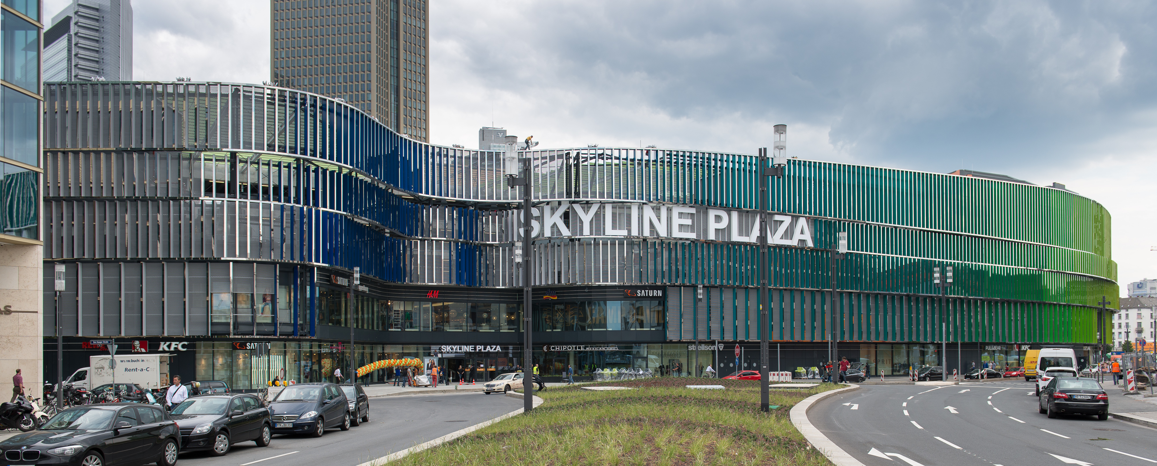 Frankfurt am Main, Skyline Plaza shopping mall the day before its opening as seen from West (August 2013).